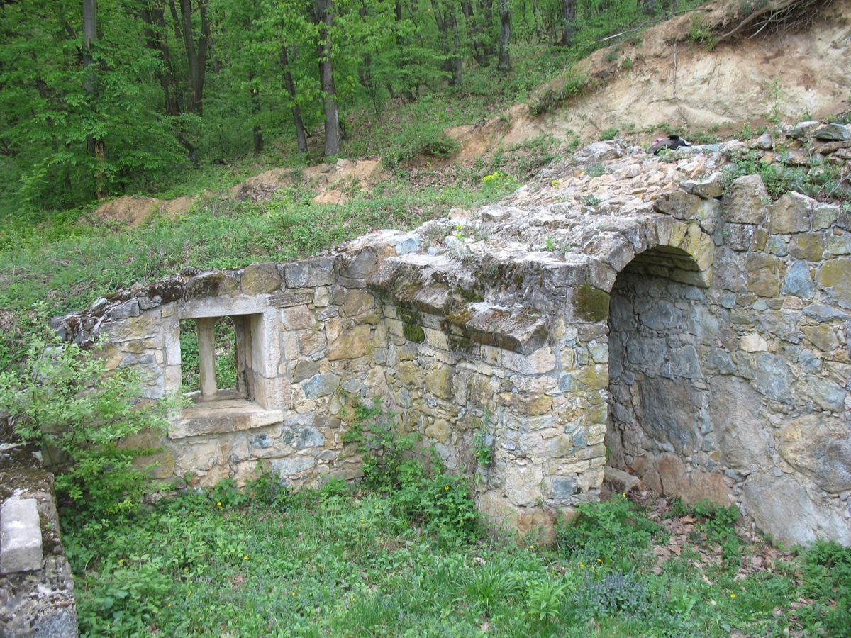 View on remains of a small court of despot Stefan Lazarević in remains of Monastery Kastaljan (Kasteljan) in Nemenikuće on Kosmaj, near Mladenovac, Serbia.